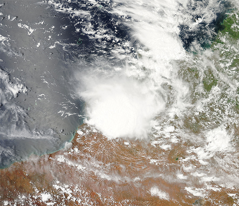 23 January 2009 MODIS Aqua satellite image of Tropical Low 08U over North West Australia.